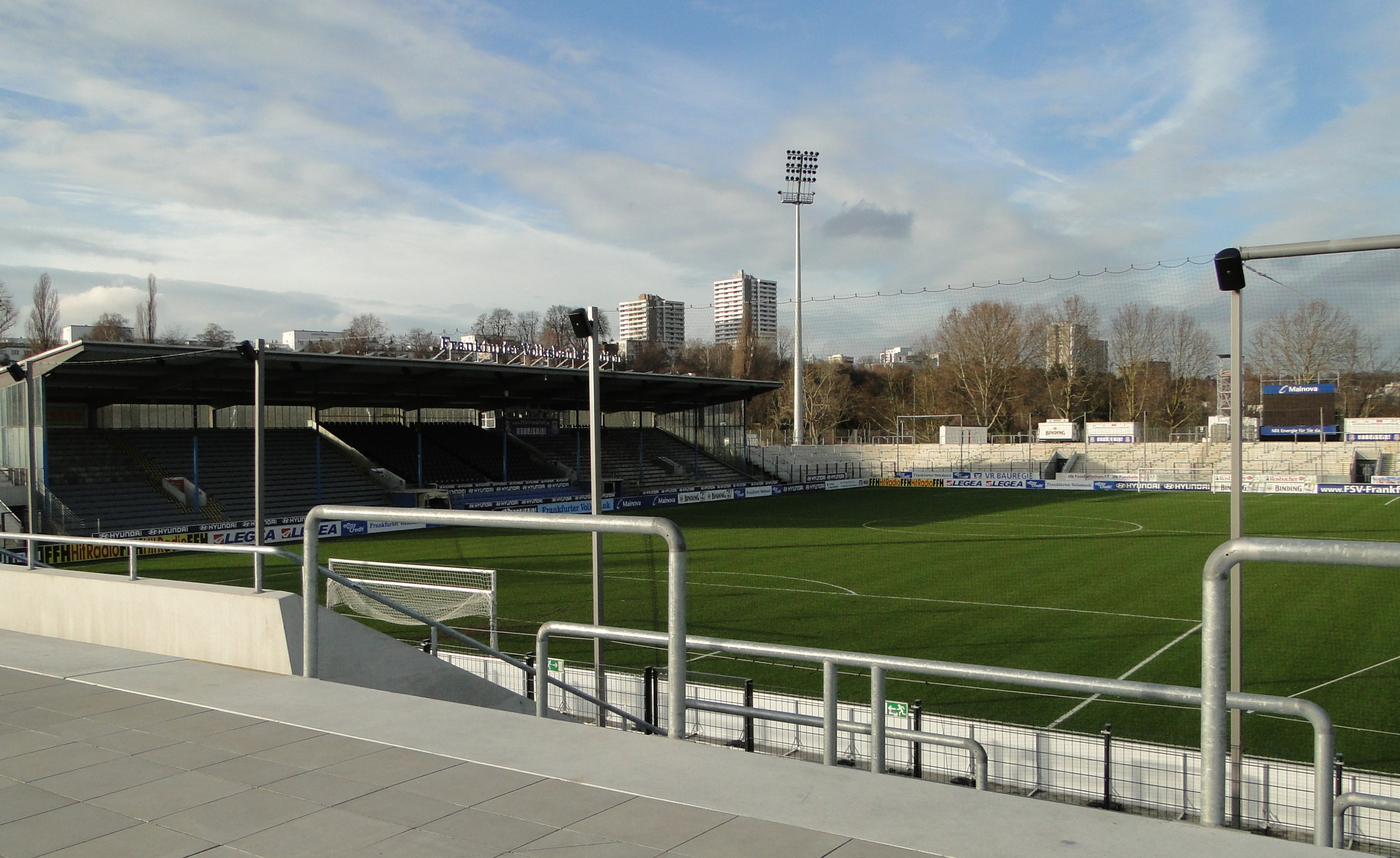 The "Volksbank Stadion" at "Bornheimer Hang" in Frankfurt am Main - Bornheim.